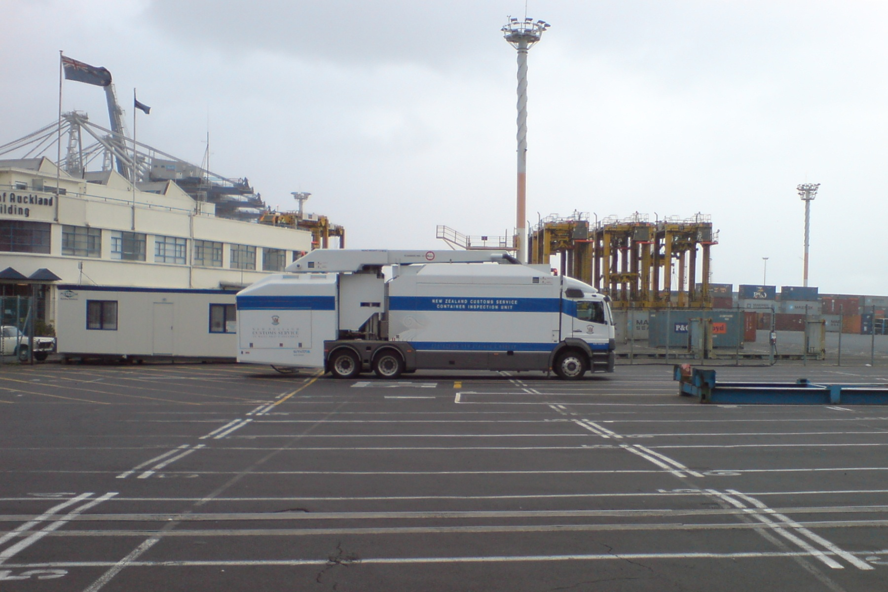 A container x-ray inspection unit of the New Zealand Customs Service at Ports of Auckland, Auckland City, New Zealand.